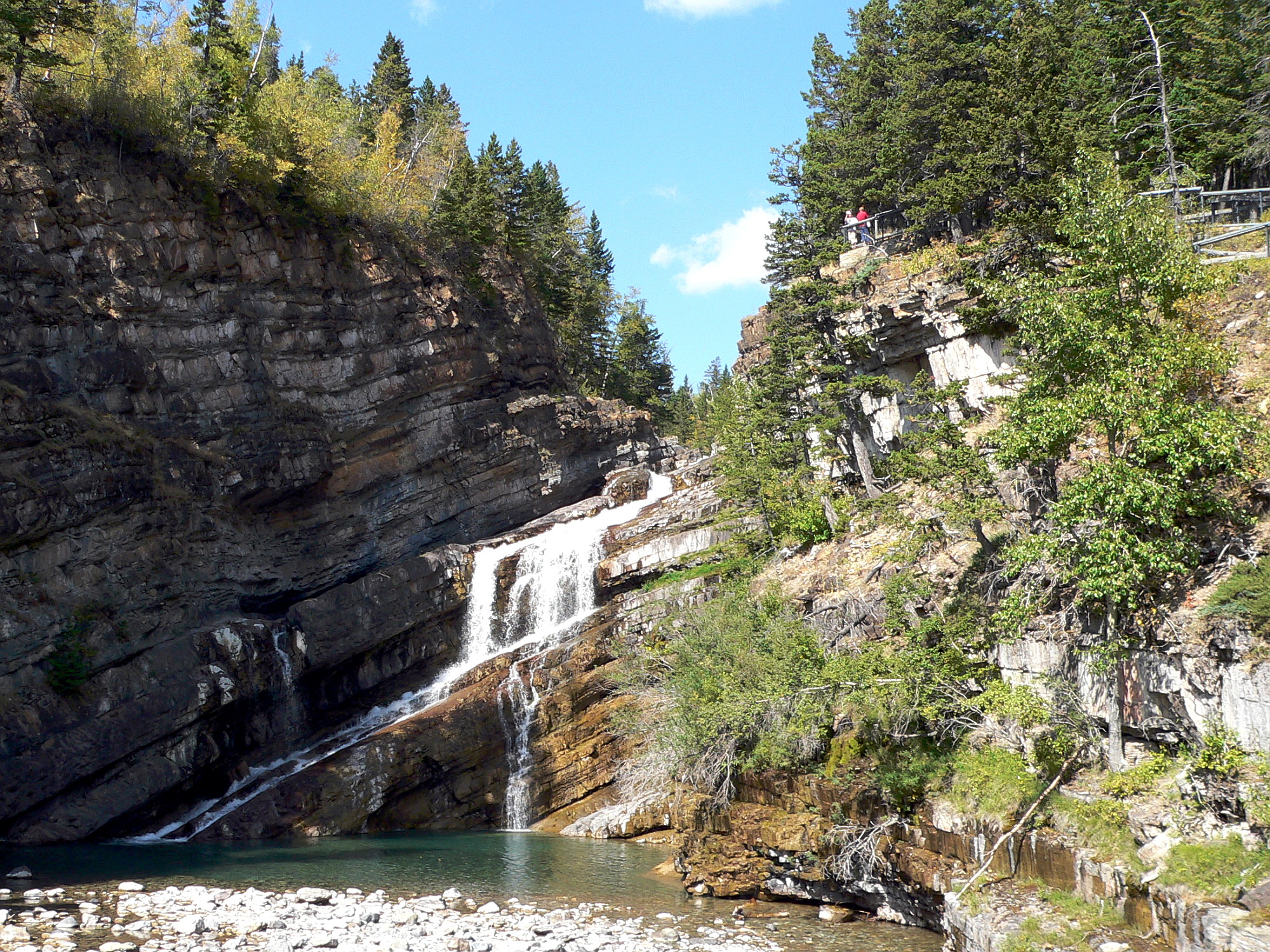 Cameron Falls in Waterton Lakes National Park, Alberta, Canada. Photo taken with a Panasonic Lumix DMC-FZ20.